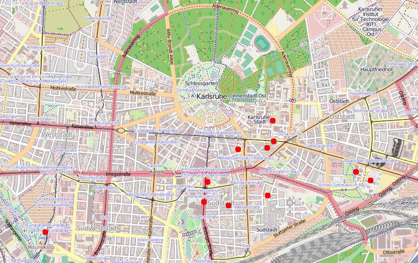 OpenStreetMap cut-out (or derivative work based on it): without further descriptionThis cut-out may be incomplete, and may contain errors, or may be obsolete. Don't rely solely on it for navigation. Seek for the present state in original context on the OpenStreetMap wiki page